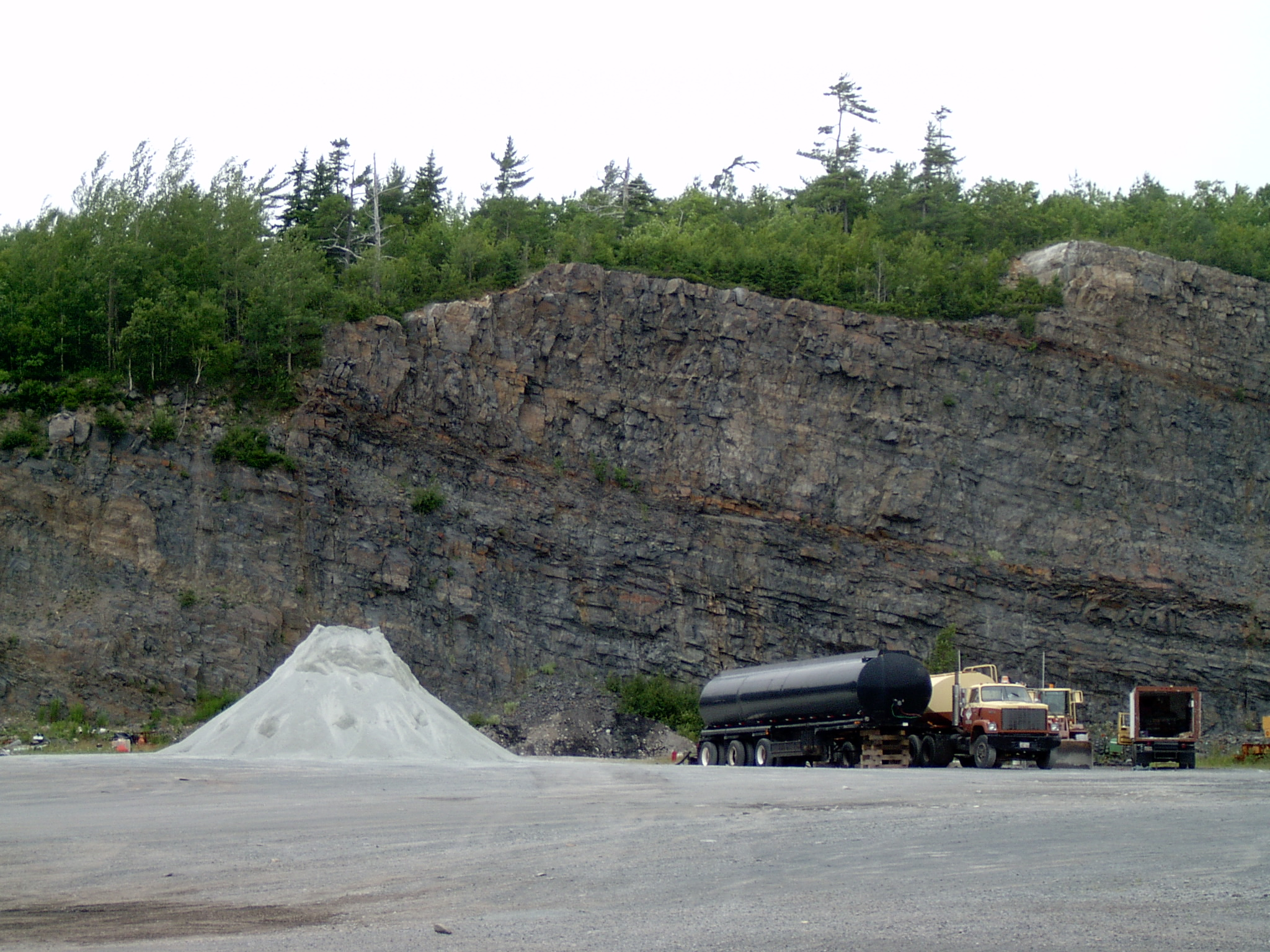 Goldenville Strata exposed at a local quarry. Bedford, Nova Scotia, Canada. The Goldenville strata is made up of thick layers of ocean sediments that were laid down during the Middle Cambrian period and which were subsequently pushed up onto land. This formation now covers over half of the province of Nova Scotia. The strata is recorded as being in some areas of the province 29,000 feet in thickness.